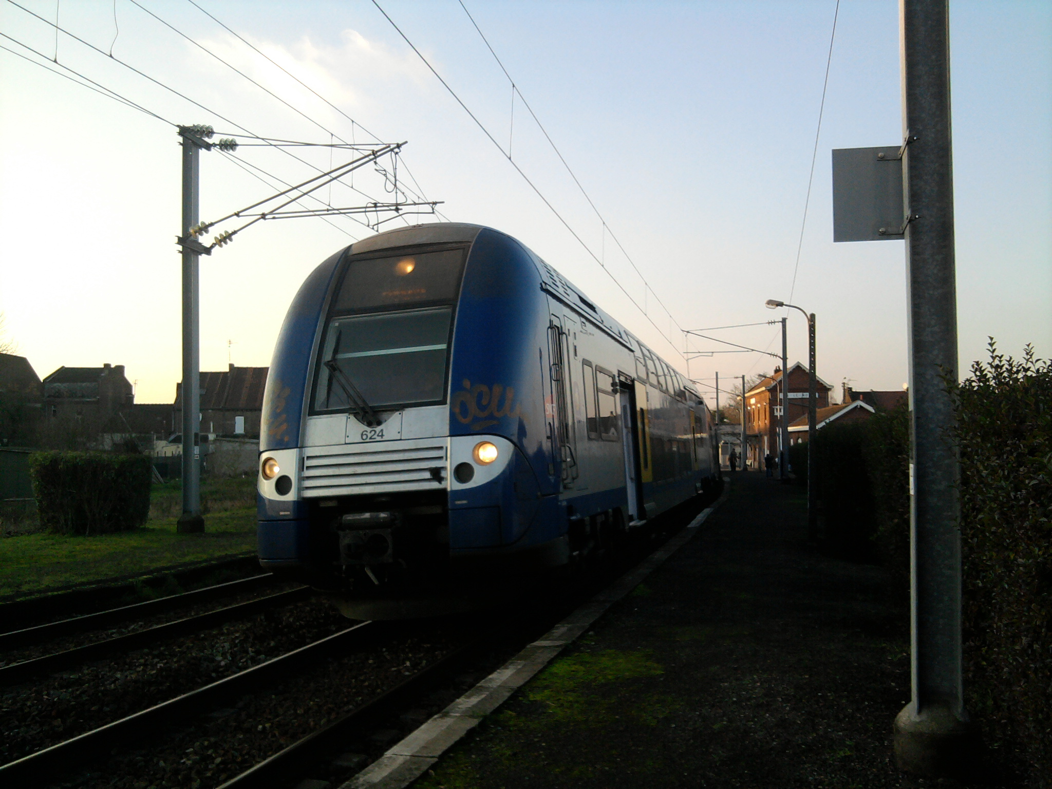 regional train at Sin le Noble station